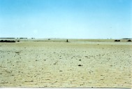 Lake Frome